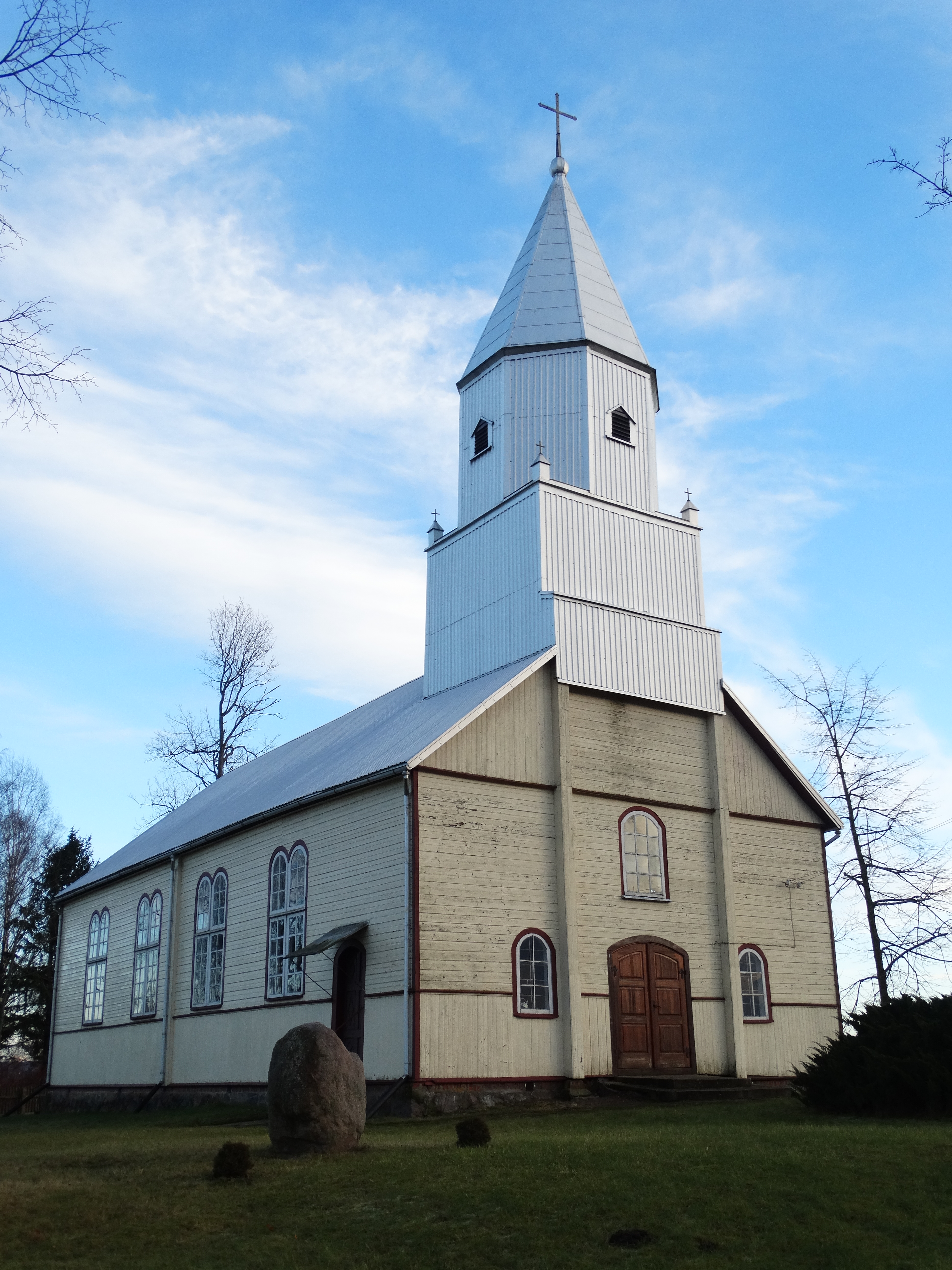 Evangelical-Lutheran Church, Skirsnemunė, Jurbarkas district, Lithuania